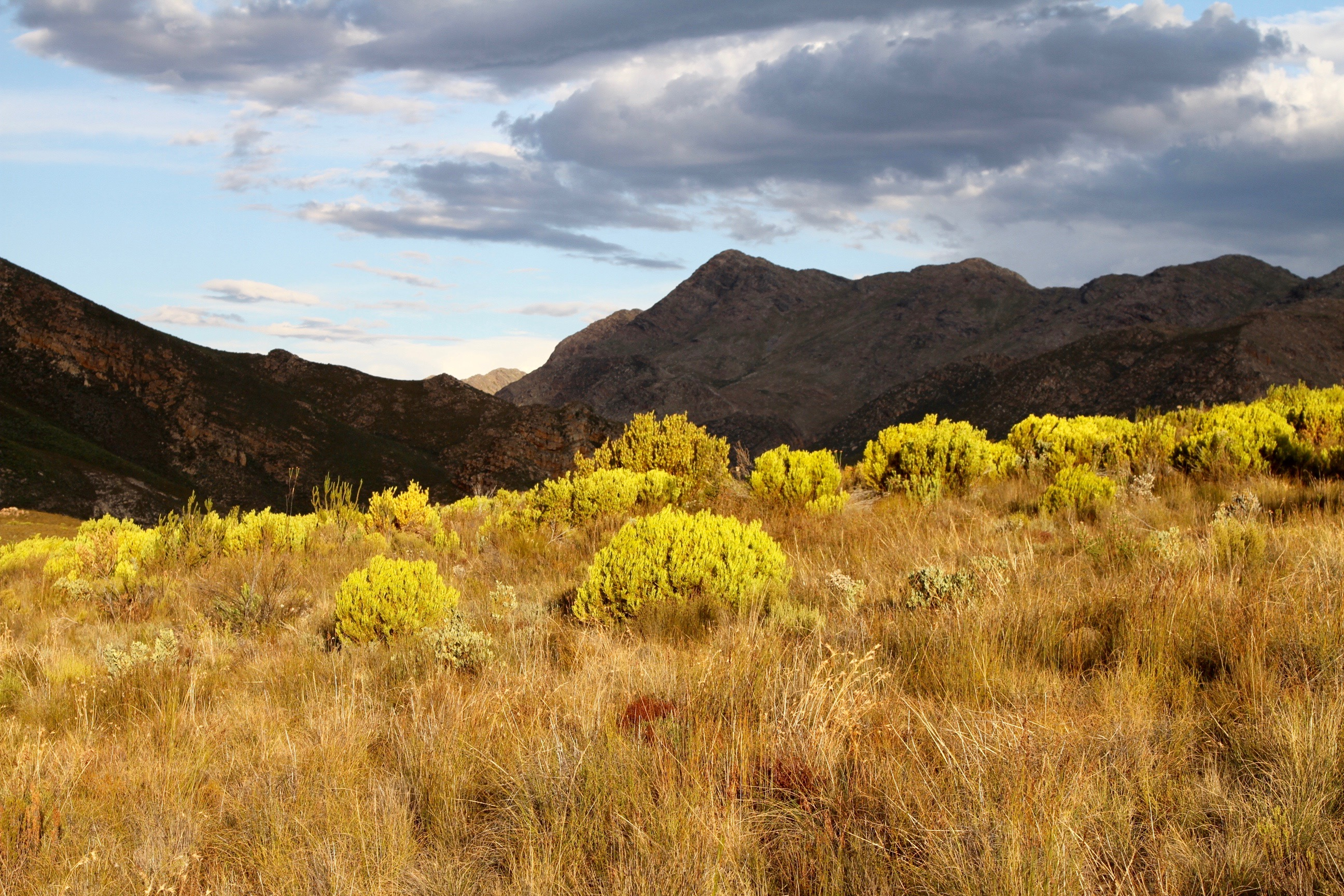 South Africa. Swartberg Nature Reserve.